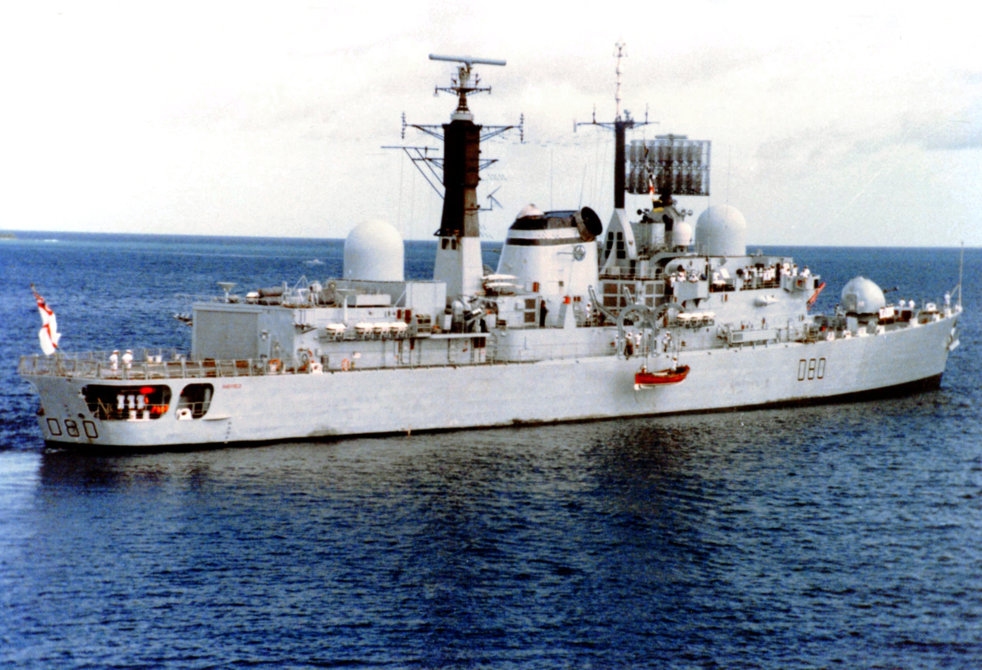 HMS Sheffield at Diego Garcia. February 1982